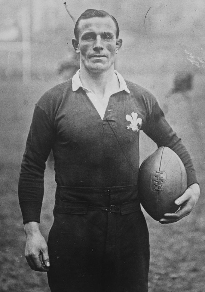 Tom Parker, Captain of Wales XV, Swansea, 24 February 1923